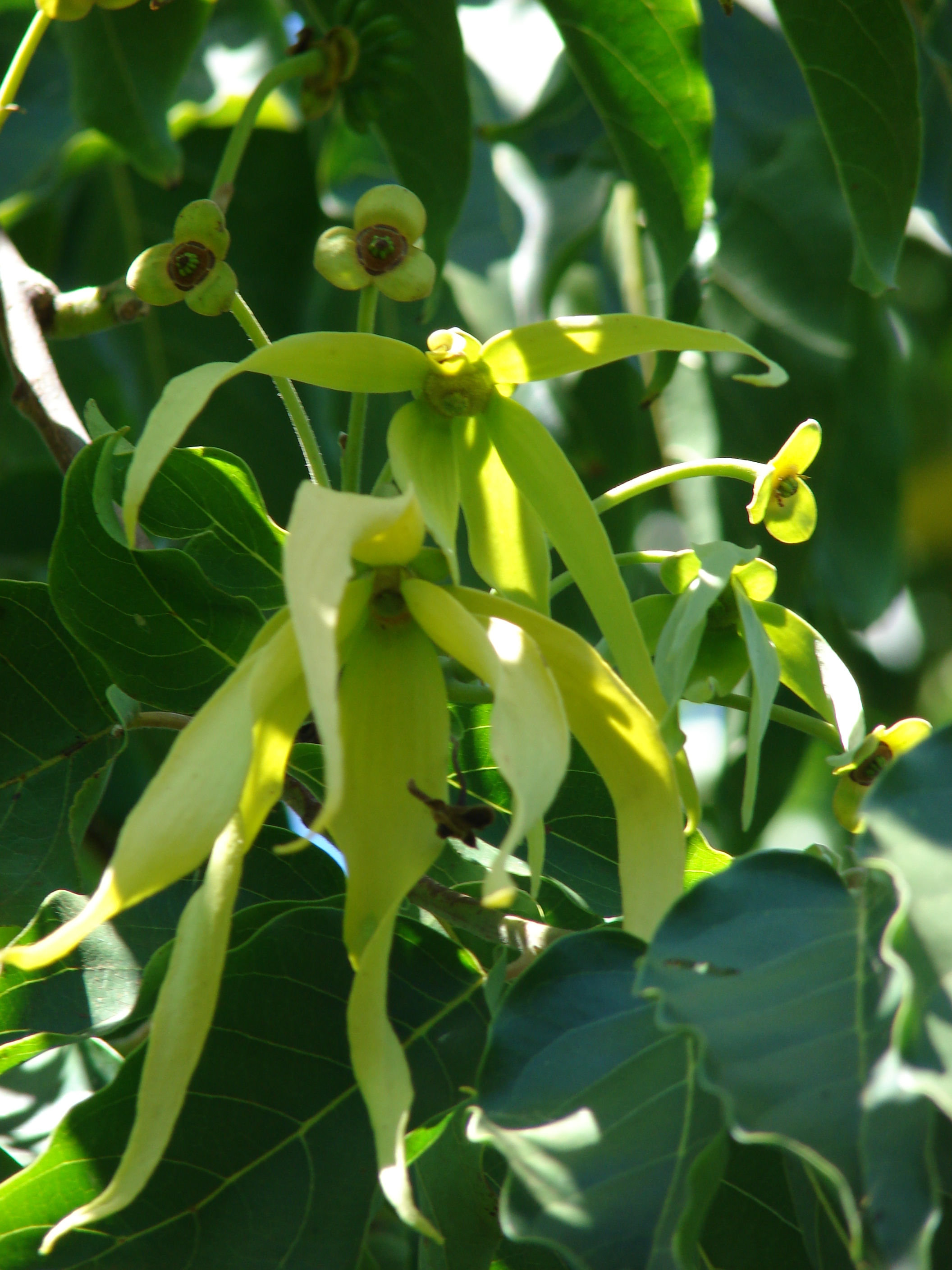 Cananga odorata (flowers). Location: Maui, Enchanting Floral Gardens of Kula